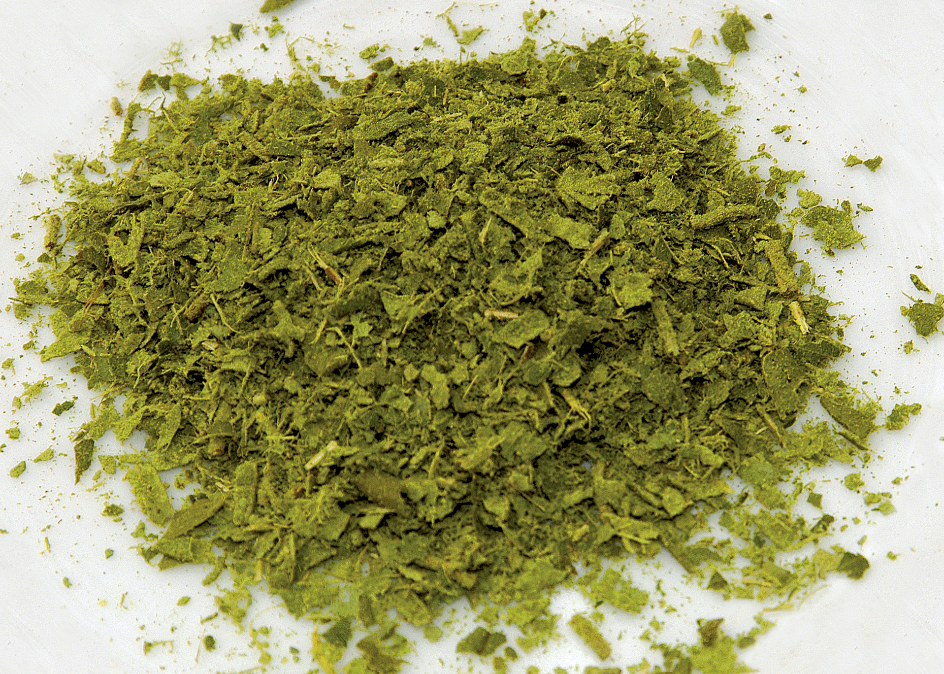 The lemon myrtle, or lemon ironwood, is a tree growing up to 20 metres in coastal rainforests of Queensland. The leaves are strongly lemon-scented, and impart a citrus-type flavour in sweet and savoury products. The leaves contain between 0.33 and 0.86 % essential oil consisting almost entirely of citral. Lemon myrtle is currently used in commercial products such as tea blends and beverages, dairy products, biscuits, breads, confectionery, pasta, syrups, liqueurs, flavoured oils, packaged fish, as well an aromatic agent in cleaning and cosmetic products. CSIRO is working with Aboriginal communities and Australian industry to help develop the bush foods industry. CSIRO is seeking ways to lower production costs and increase product quality in order to meet the growing demand for a variety of food ingredients from Australian native plants, seeds and fruits.